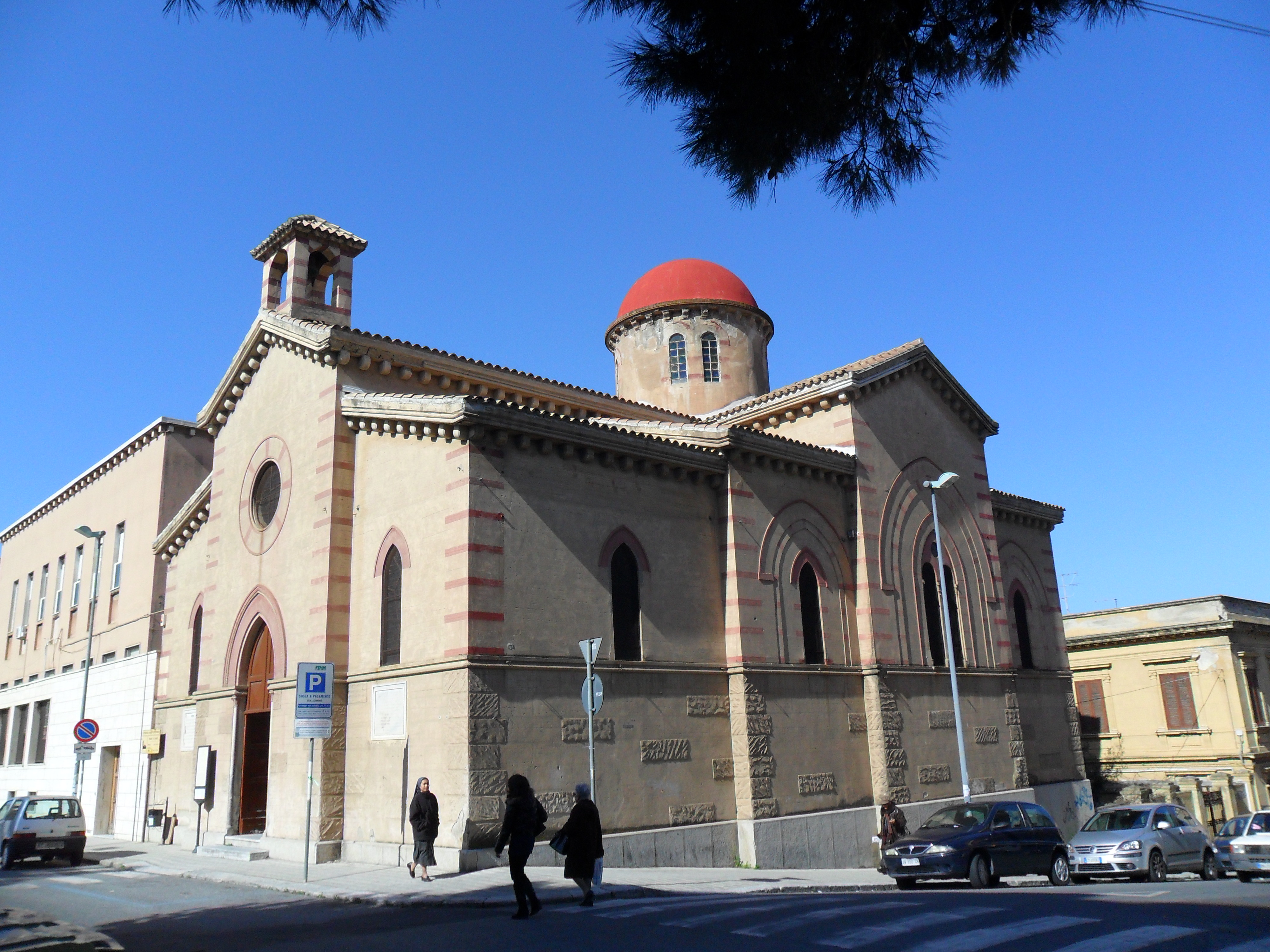 Ancien church of Ottimati in Reggio